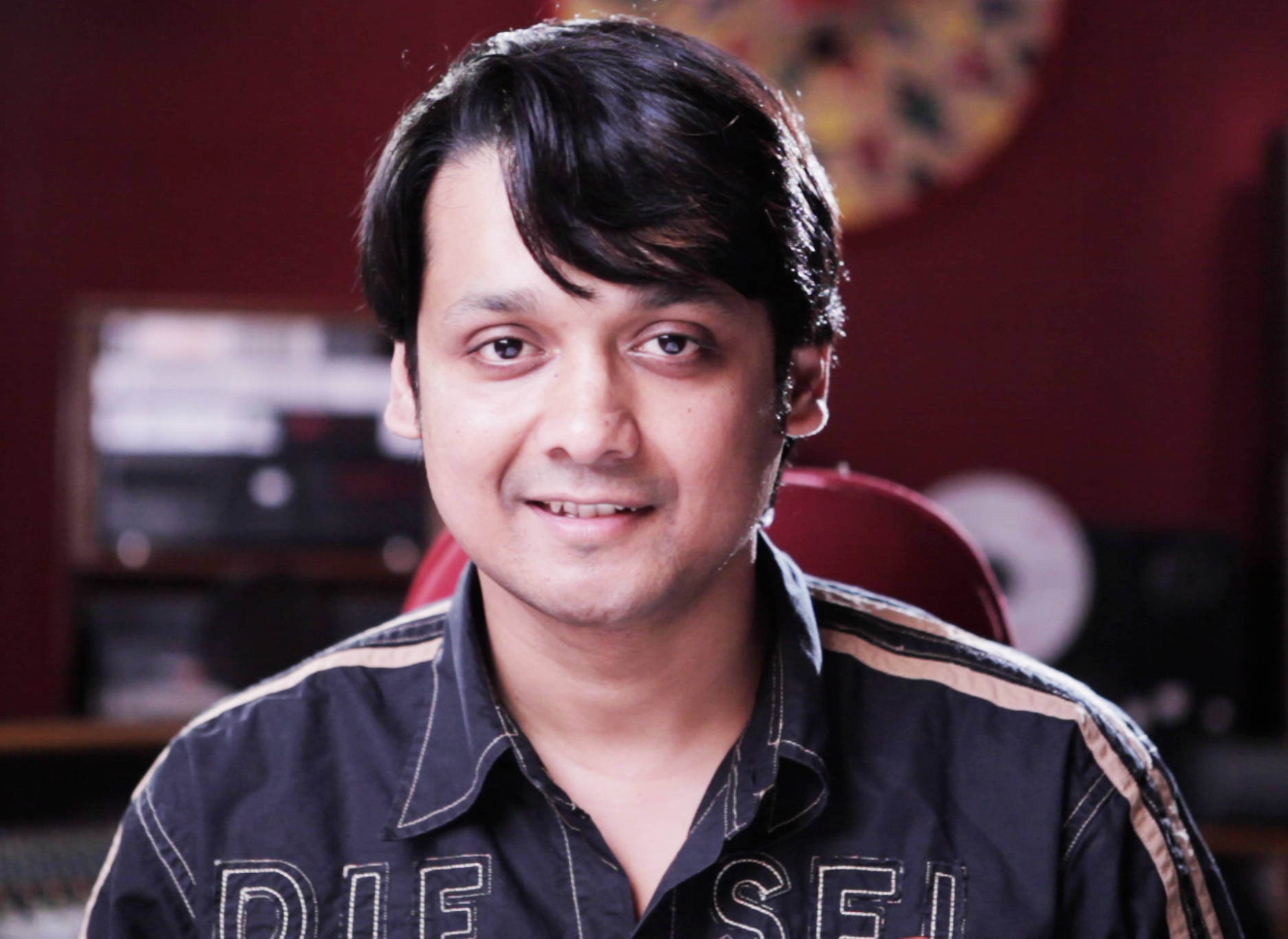 Assamese Actor Kopil Bora gives a behind-the-scenes interview for the Axomiya language version of the TeachAIDS animation at Auditek Digital Recording Studio in Guwahati, Assam.